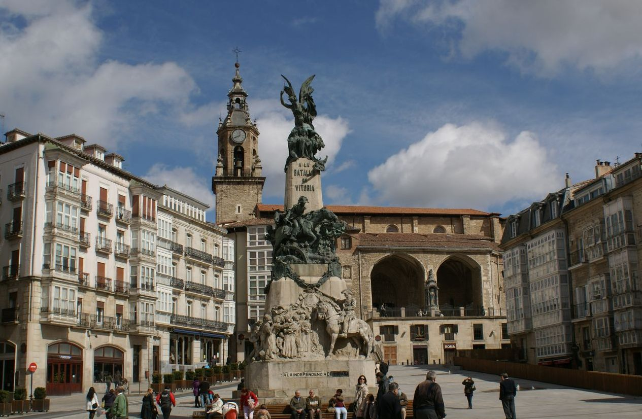 Virgen Blanca square. Vitoria-Gasteiz.